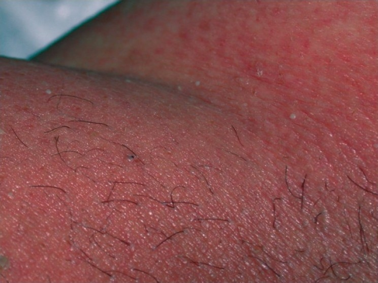 Multiple small subcorneal pustules on erythematous patches Other information Regarding the article this image is from: This is an open-access article distributed under the terms of the Creative Commons Attribution License, which permits unrestricted use, distribution, and reproduction in any medium, provided the original work is properly cited.